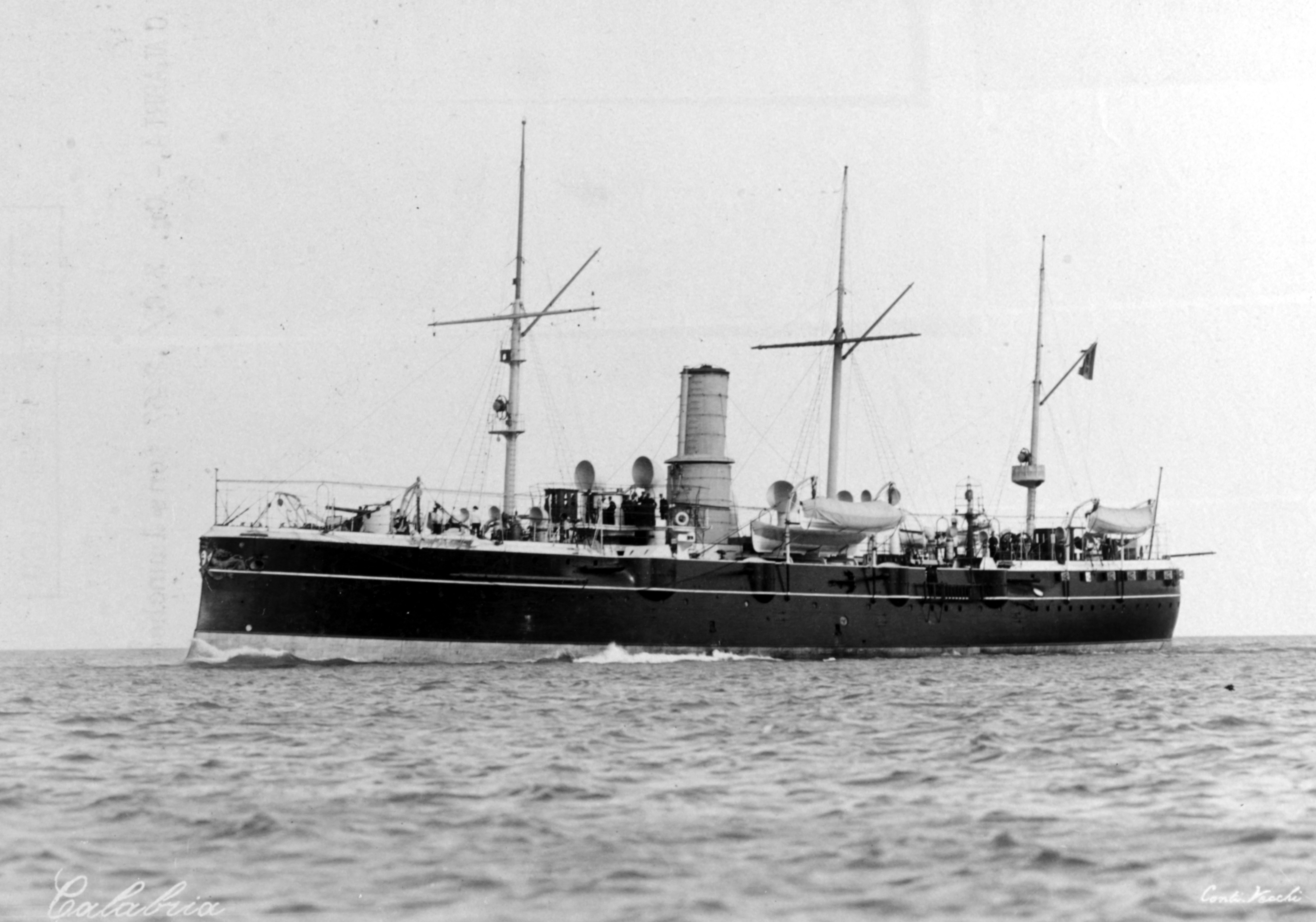 Title: CALABRIA (Italian Cruiser, 1894 -1924) Caption: Photographed early in her career.